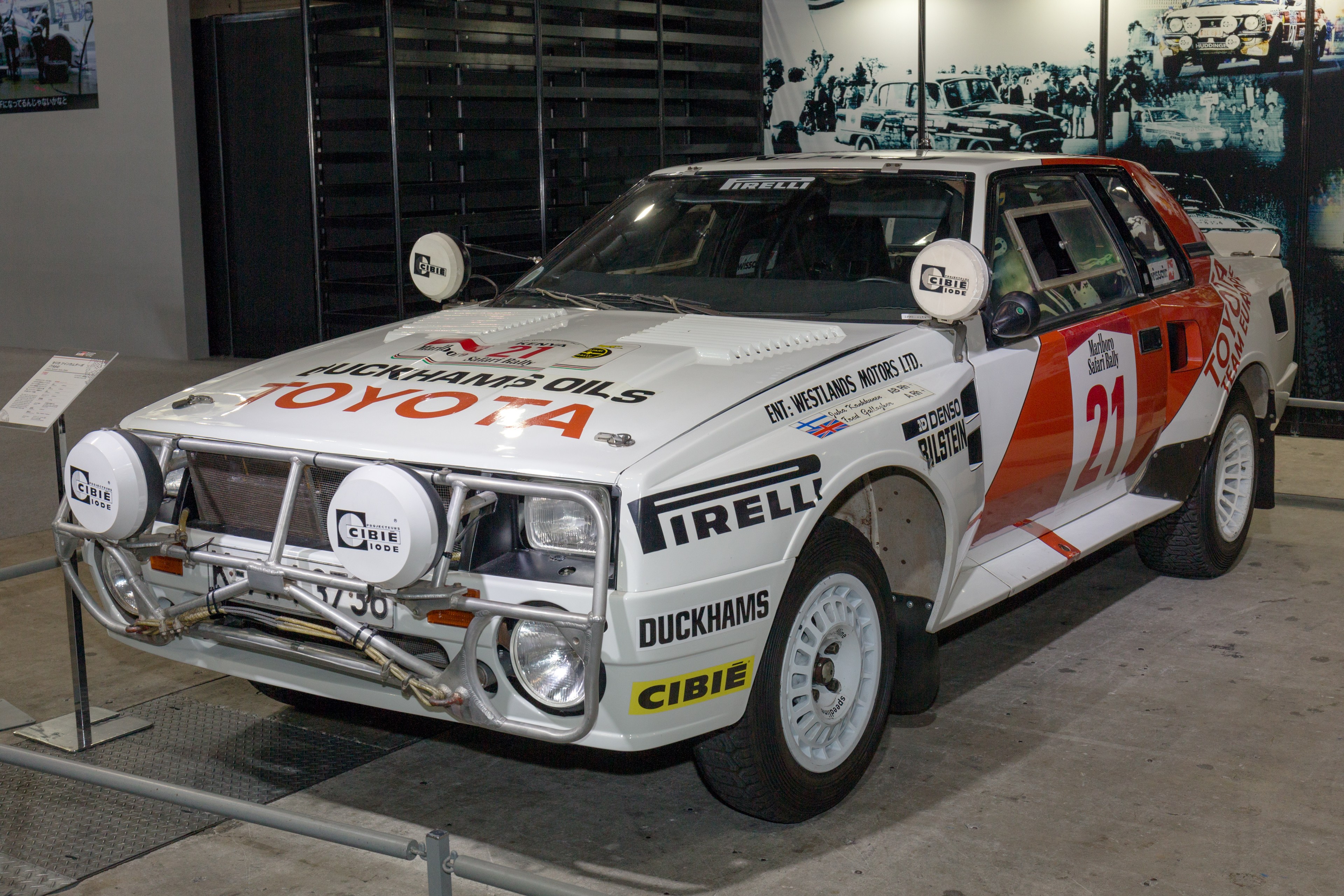 Tokyo Auto Salon 2017: 1985 Toyo Celica Twin-Cam turbo TA64